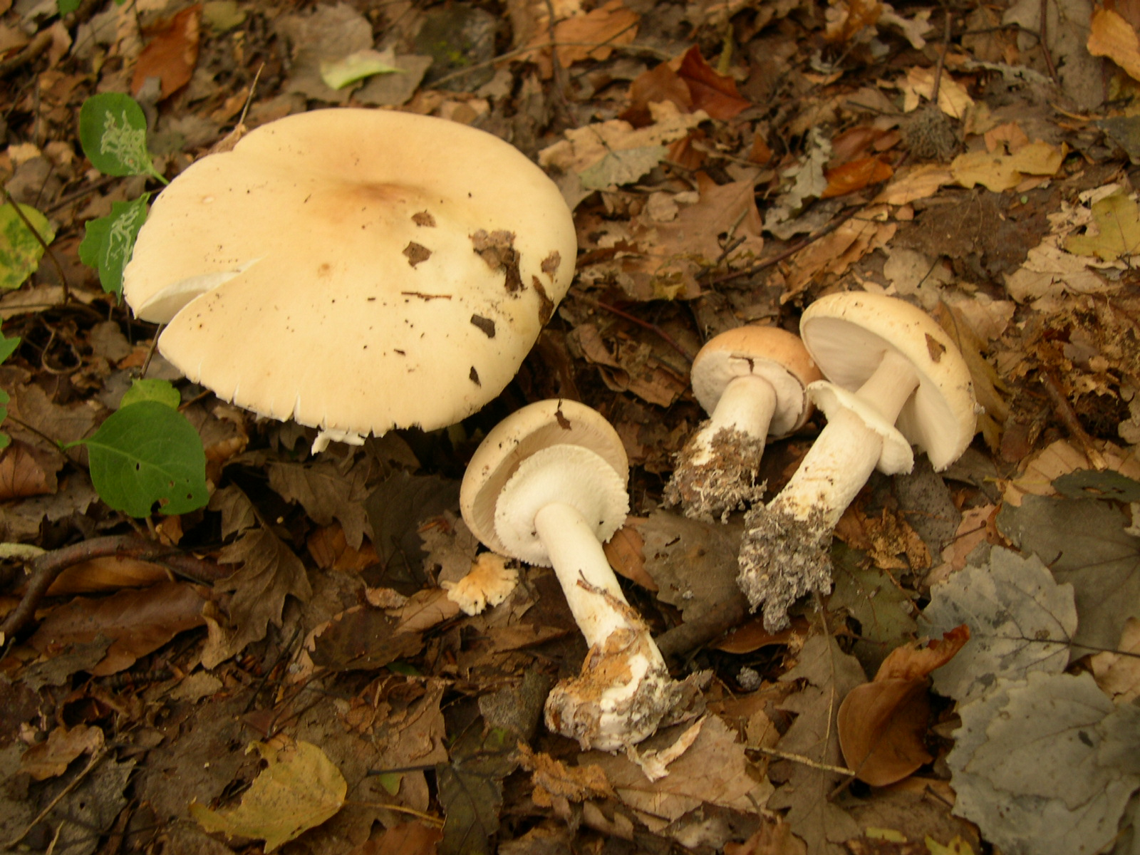 Limacella guttata (Pers.: Fr.) Konrad & Maublanc